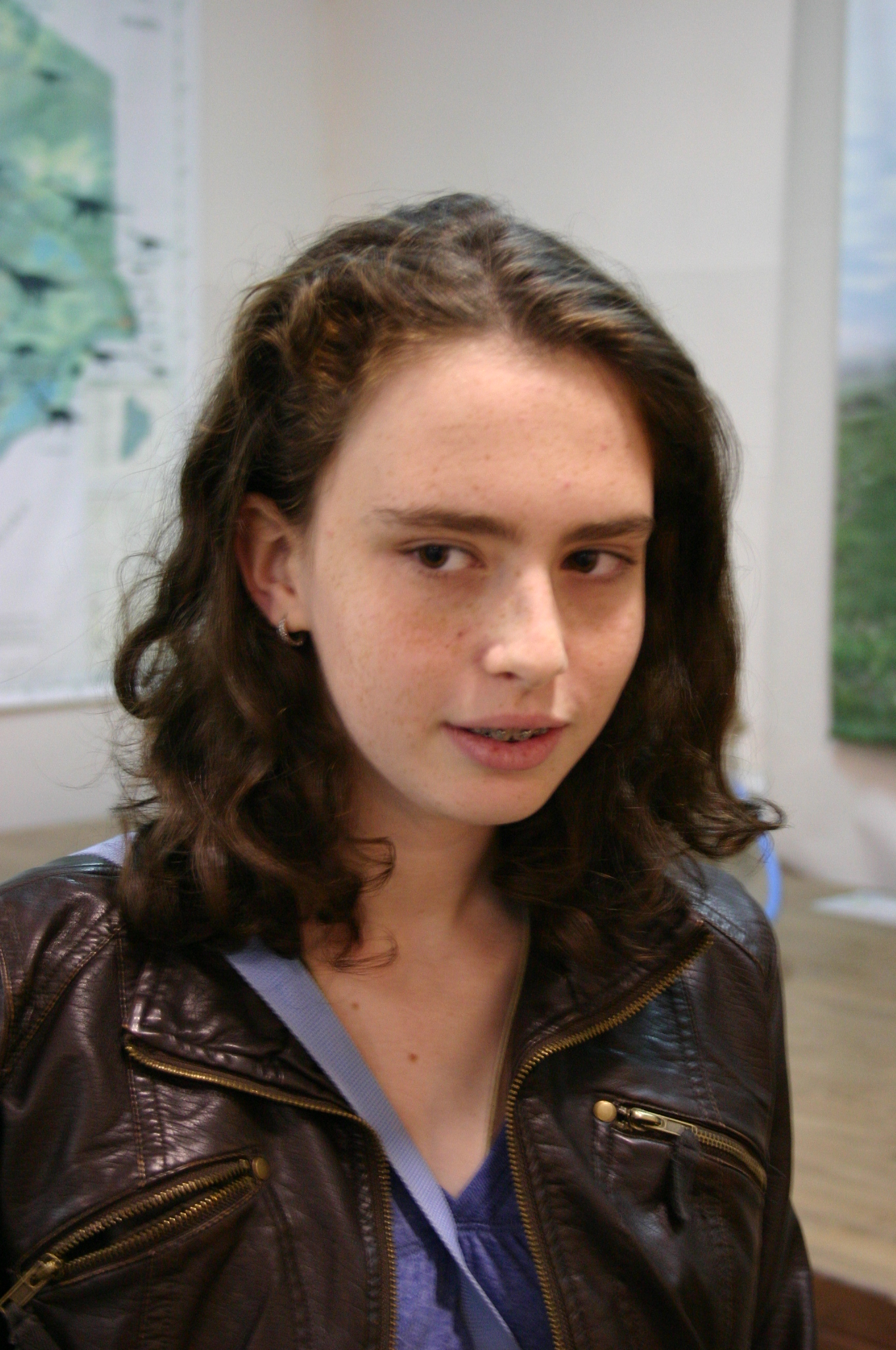 Marsel Efroimski, Israeli chess player, world women's chess champion under 12 in 2007.